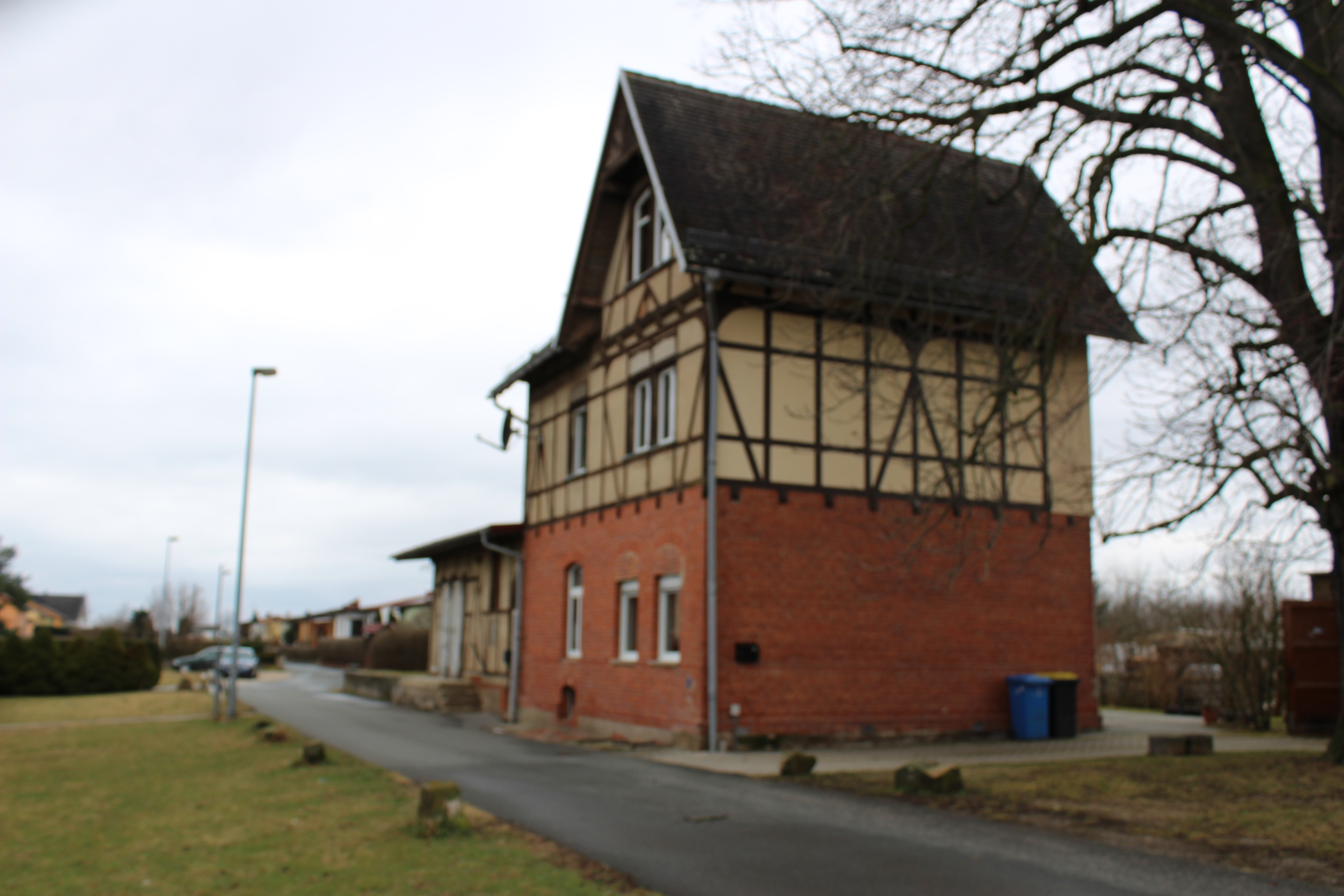 train station Hainspitz